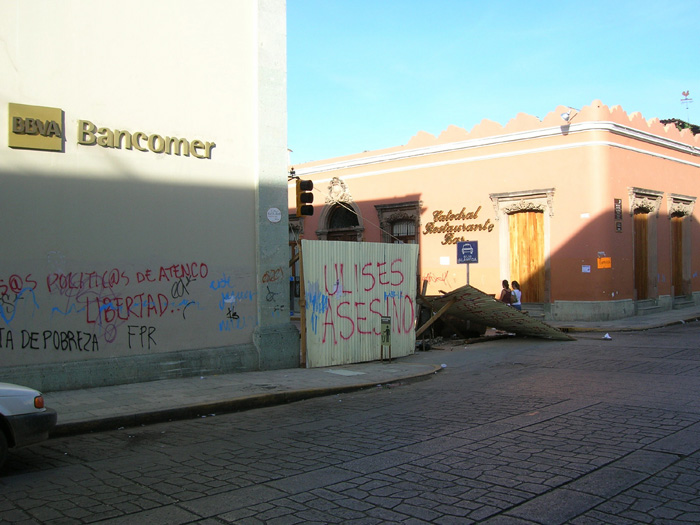 Graffitis by protesters on walls of Oaxaca Juarez